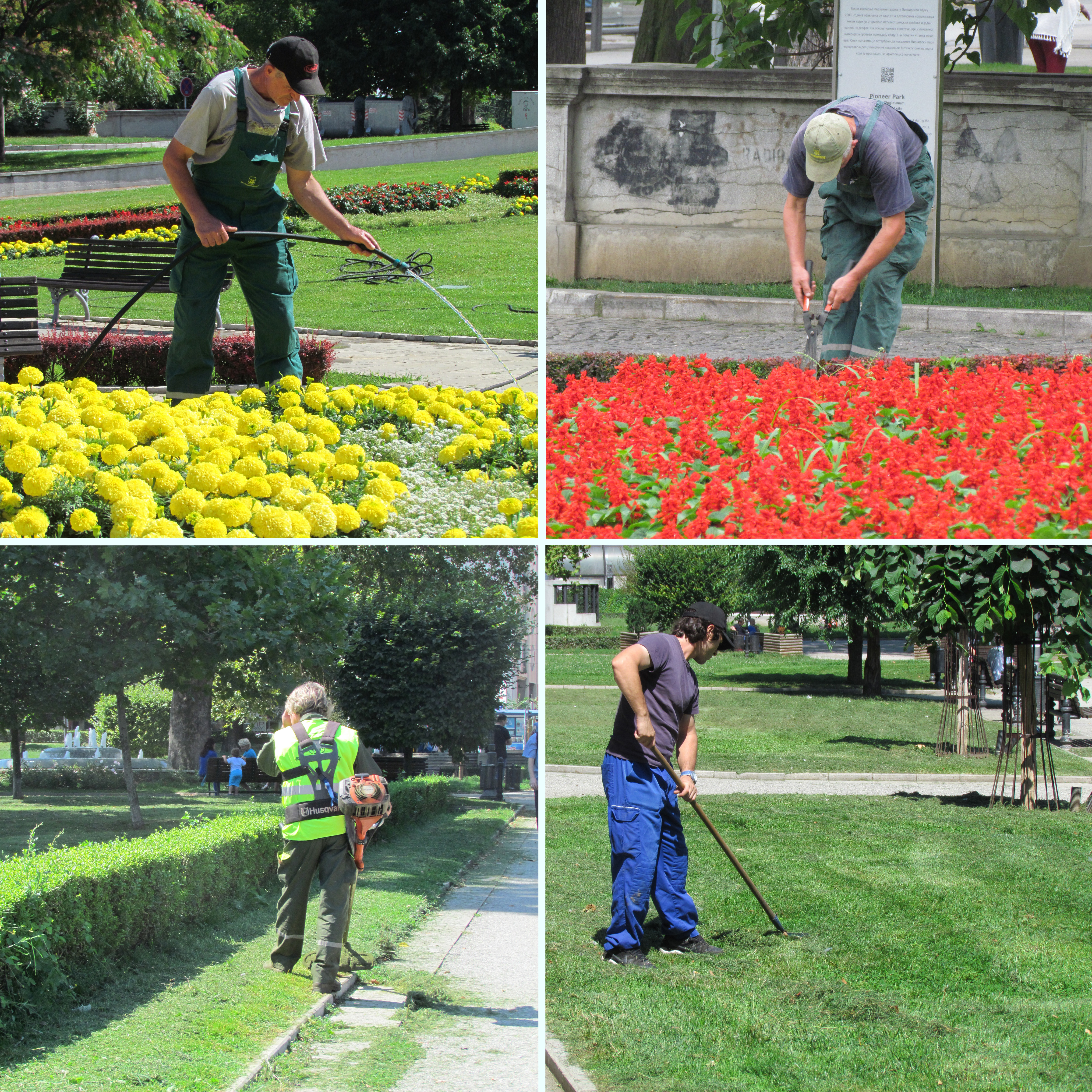 Gardeners in works.